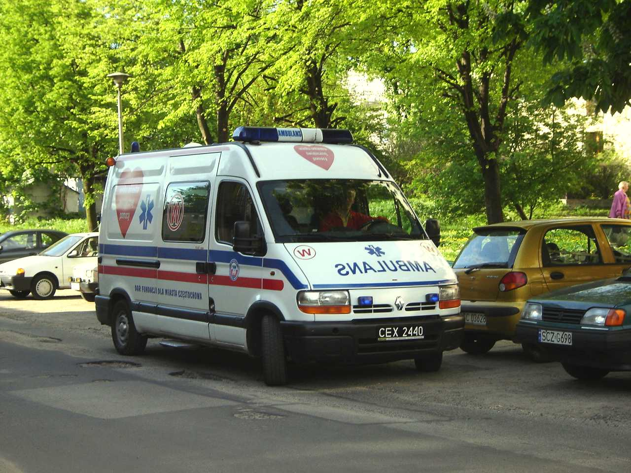 Polish ambulance Renault (red heart marking means, that it was bought from funds of annual charity public collection, Wielka Orkiestra Świątecznej Pomocy). , with "AMBULANS" in mirror writing ("SNALUBMA"). Author: Reytan